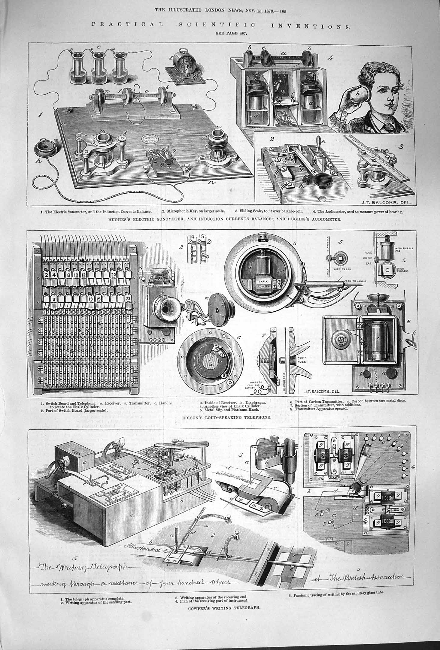 The Illustrated London News, 1879, p. 465